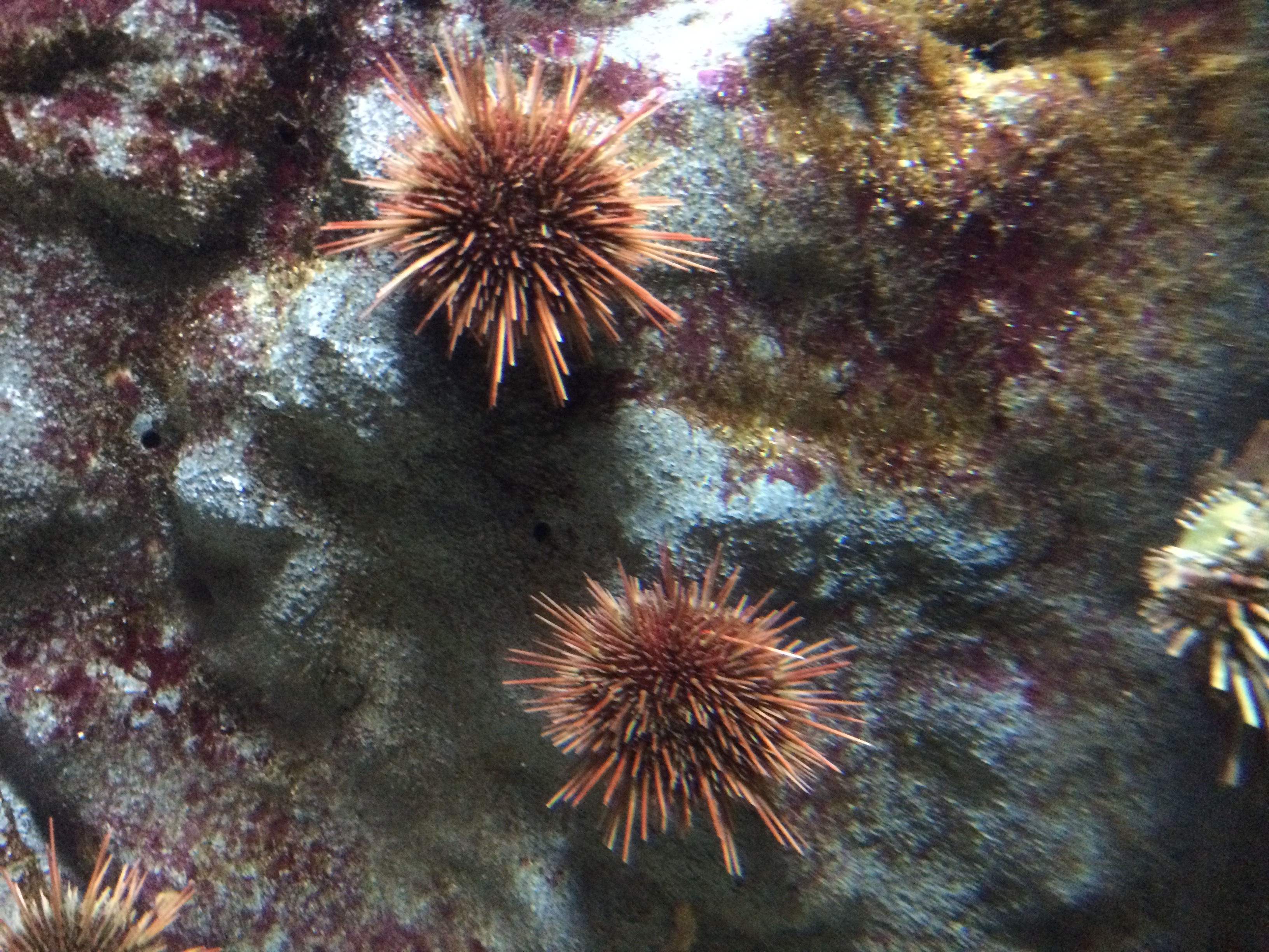 erizo (Loxechinus albus) in Tokyo Sea Life Park